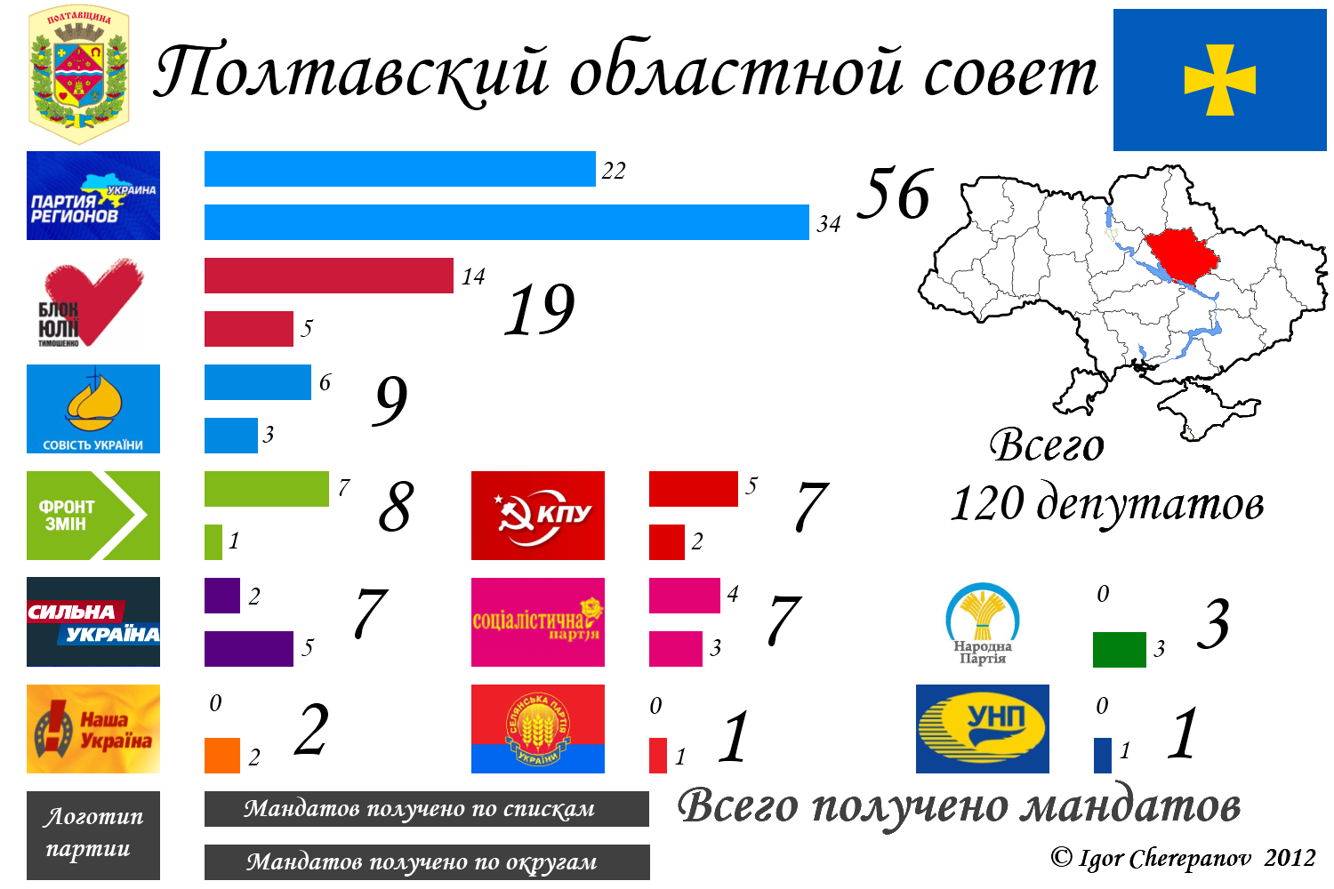 Results of Polvata Oblast local election 2010